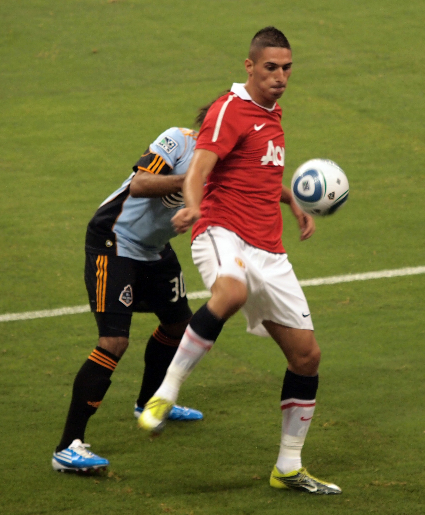 Federico Macheda at the 2010 MLS All Star Game.